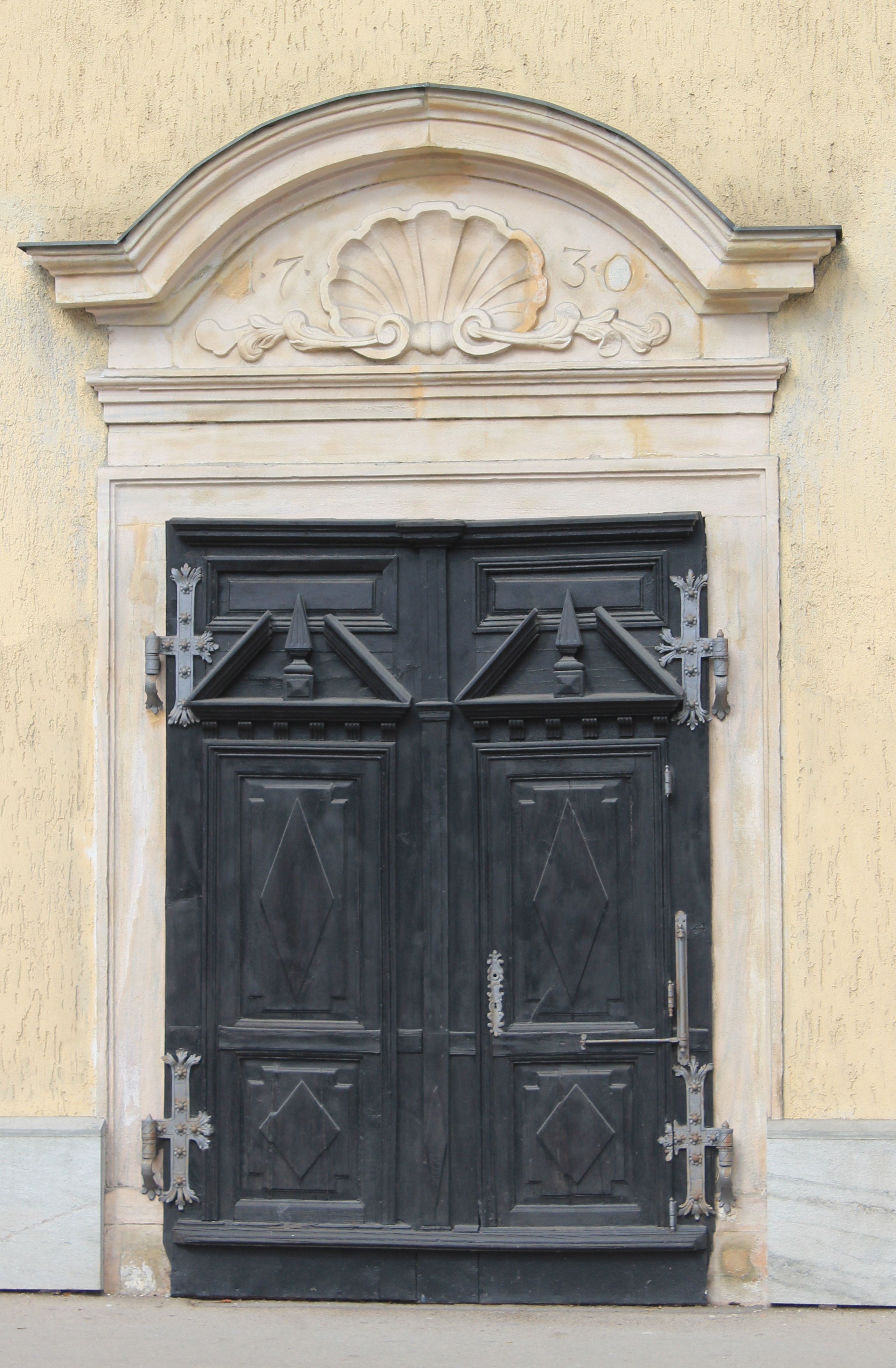 House Völkermarkter Straße 15, 19 in Klagenfurt